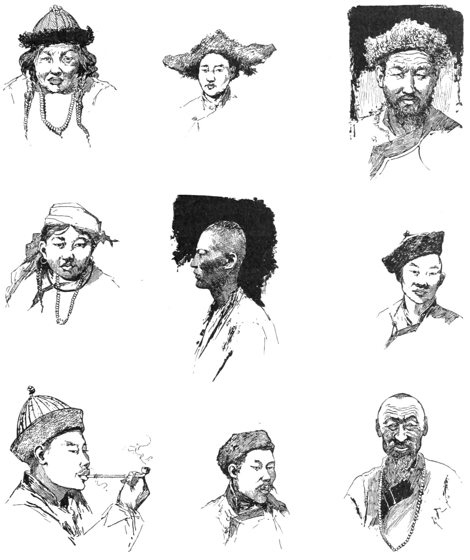 Types of Buriats, Chinese, and Mongols in Maimachin